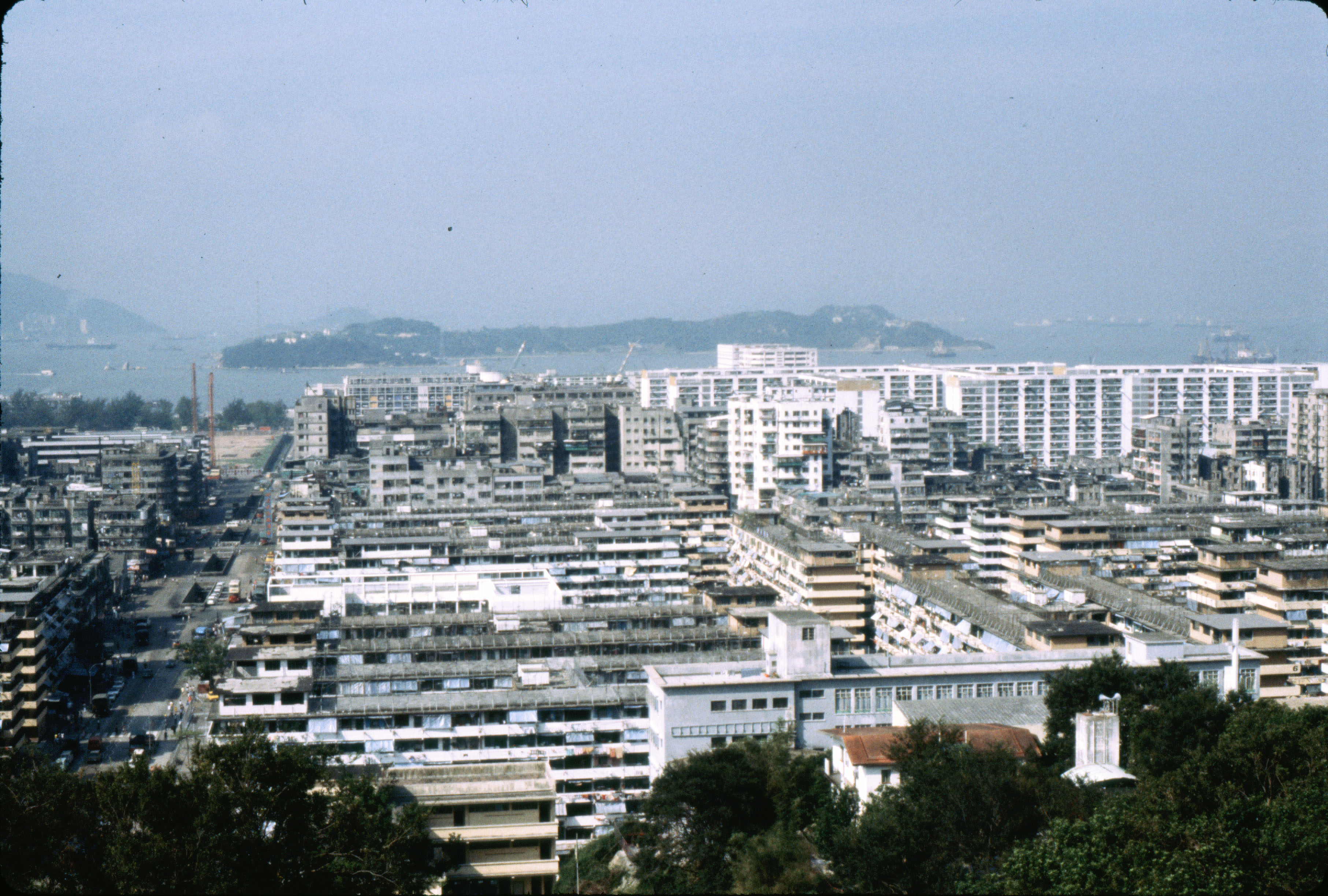 Resettlement are for refugees from People’s Republic of China; Hong Kong.